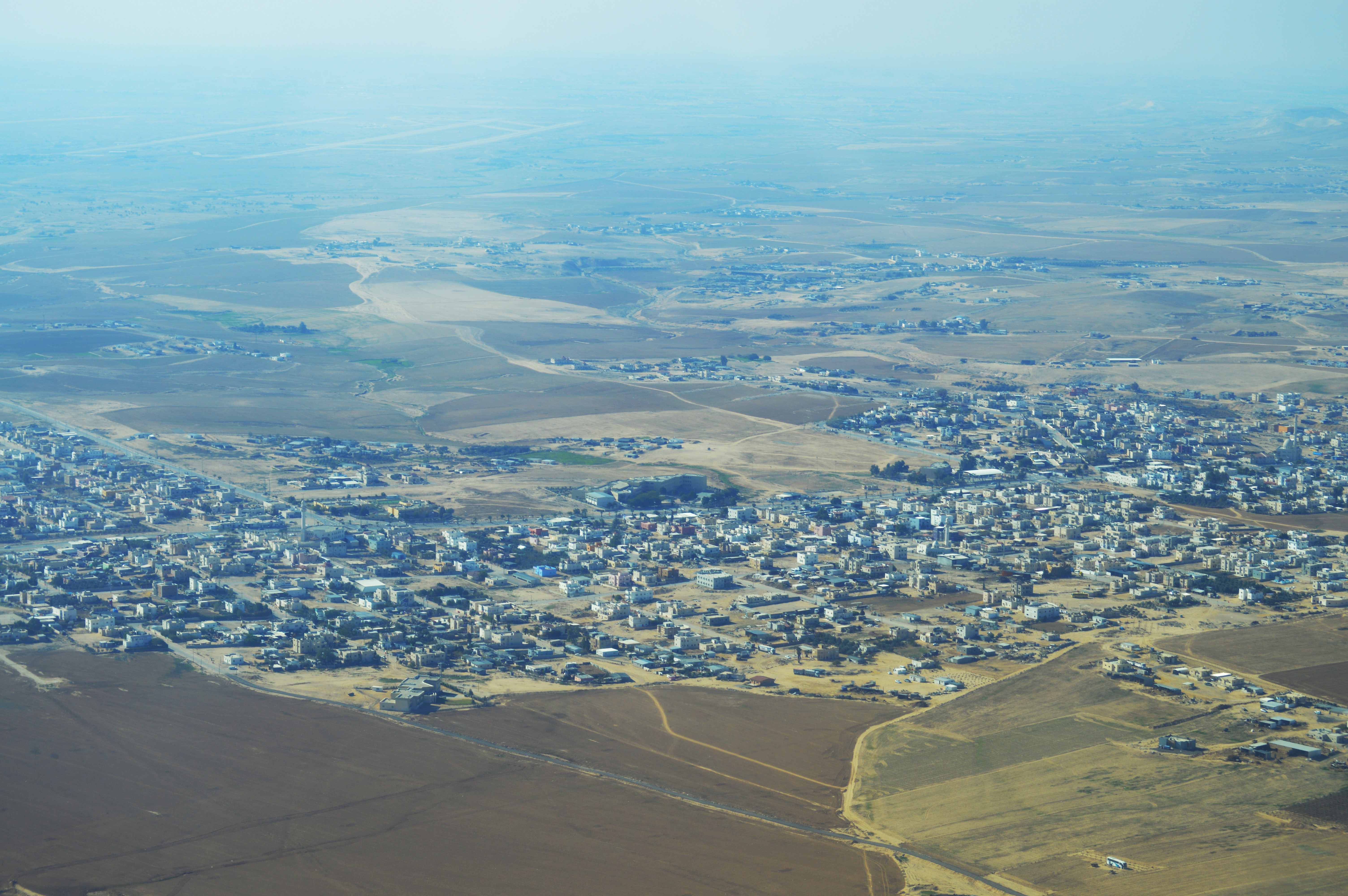 Kseifa Aerial View